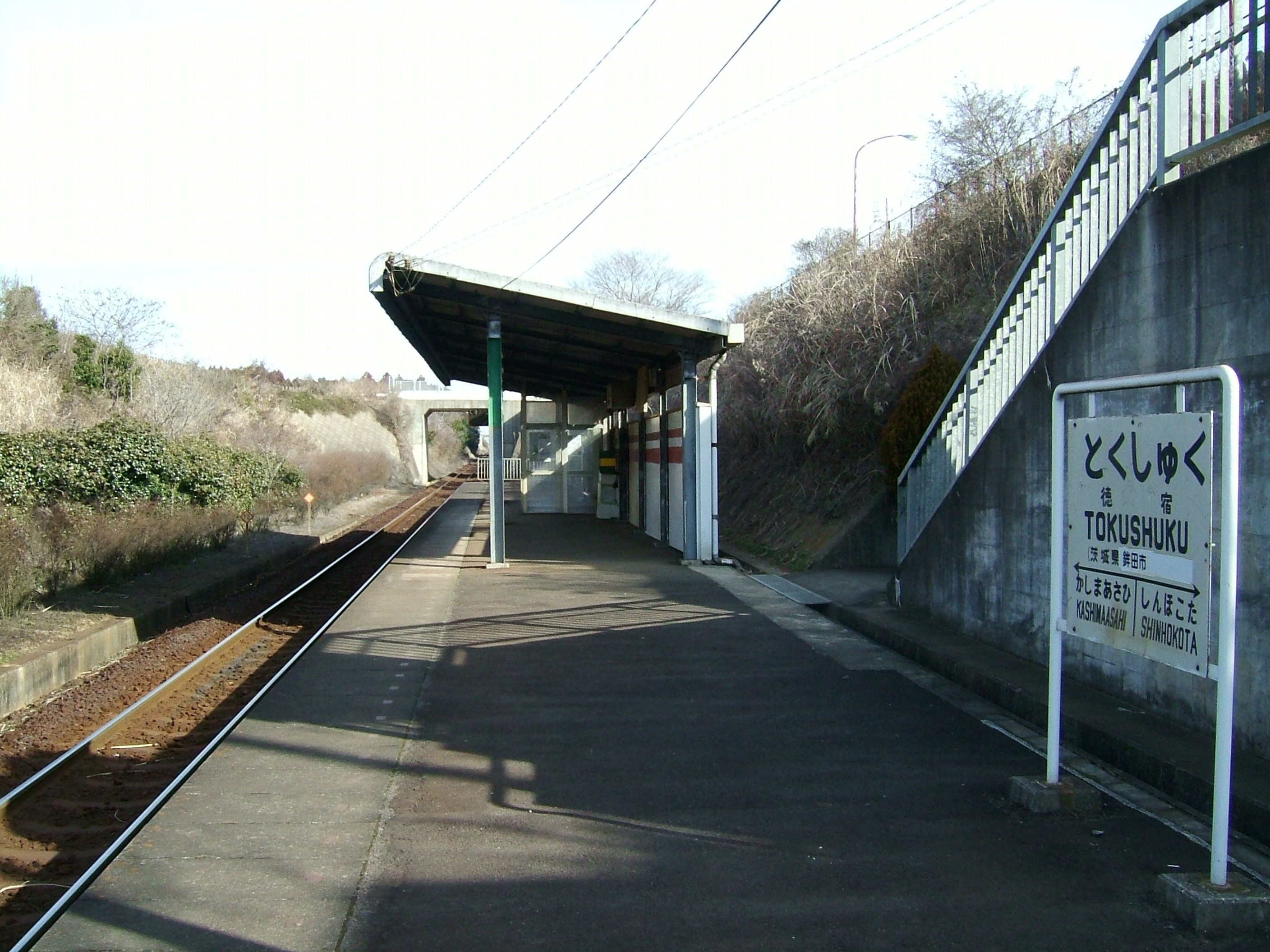 Tokushuku Station platform (Kashima Seaside Railway Oarai-Kashima Line)